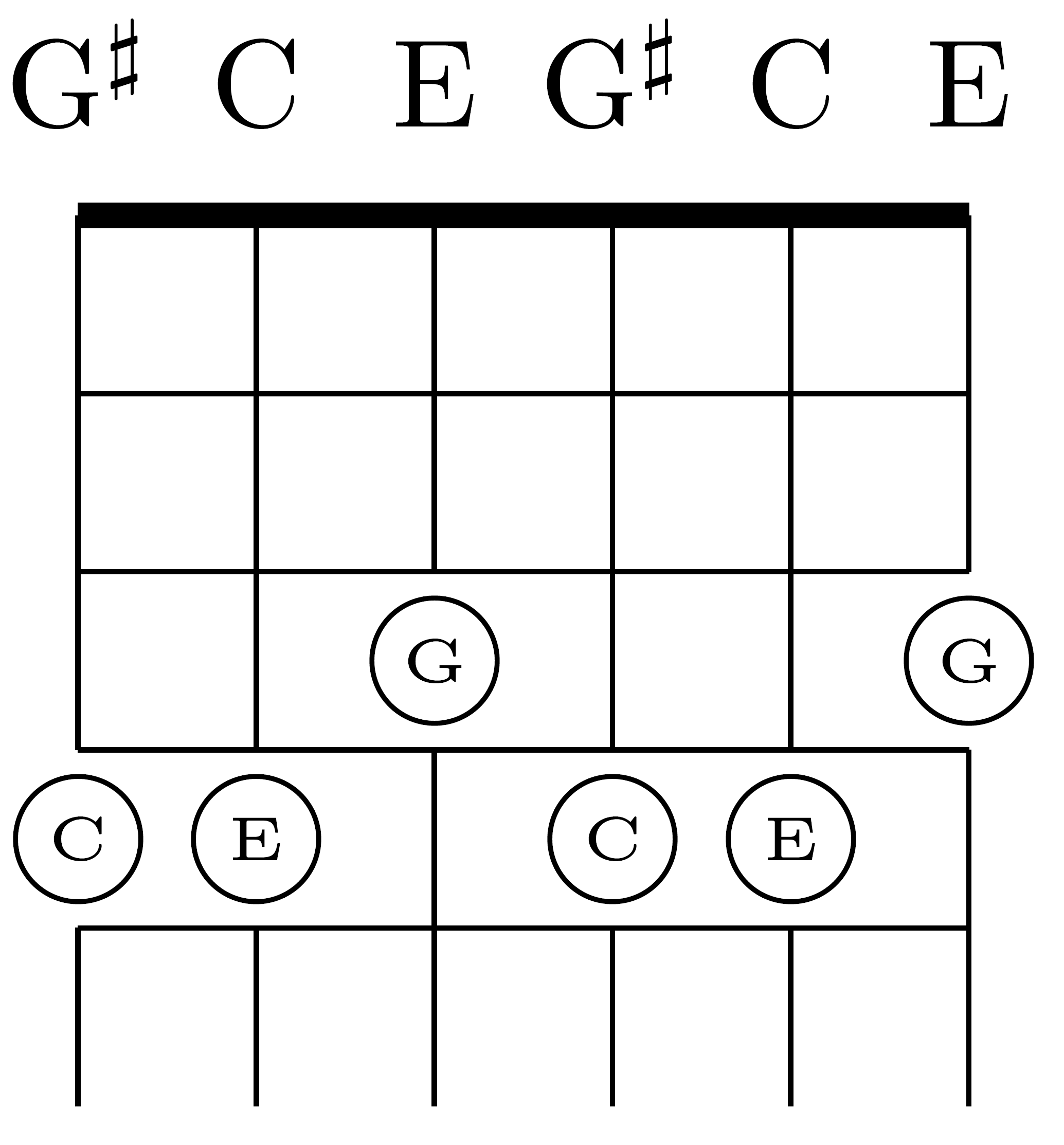 A C-major chord is shown in two positions on a six-string guitar with major-thirds tuning, on strings 1-3 and strings 4-6, on frets 3-4.